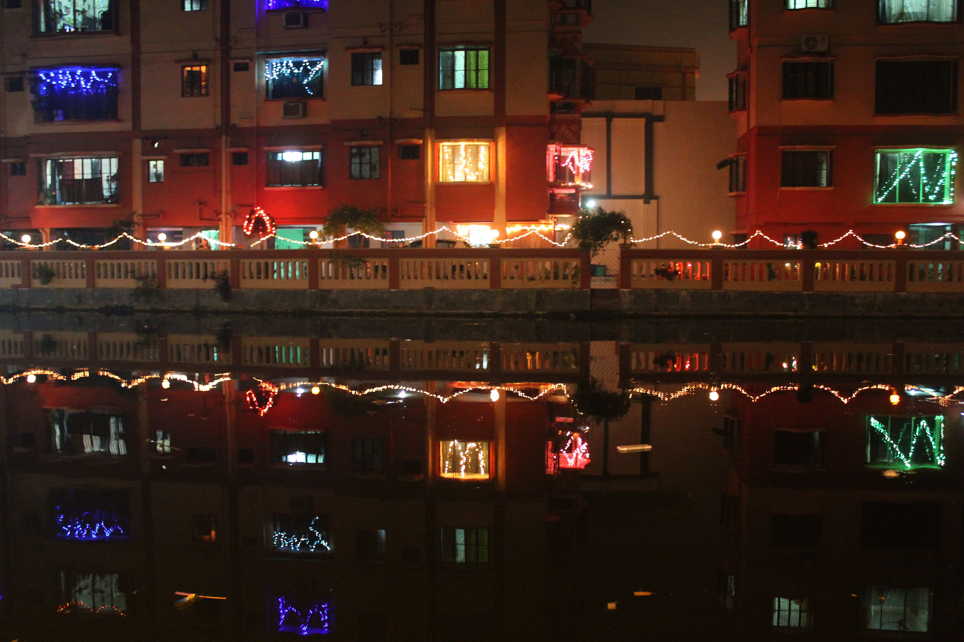 Reflection of Diwali light